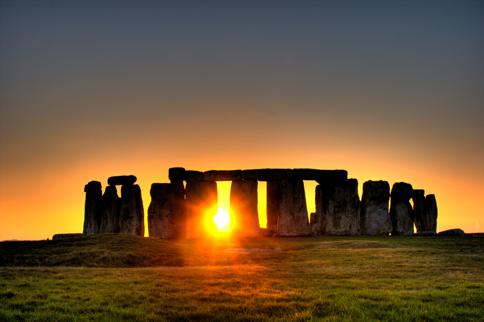 Stonehenge in your face